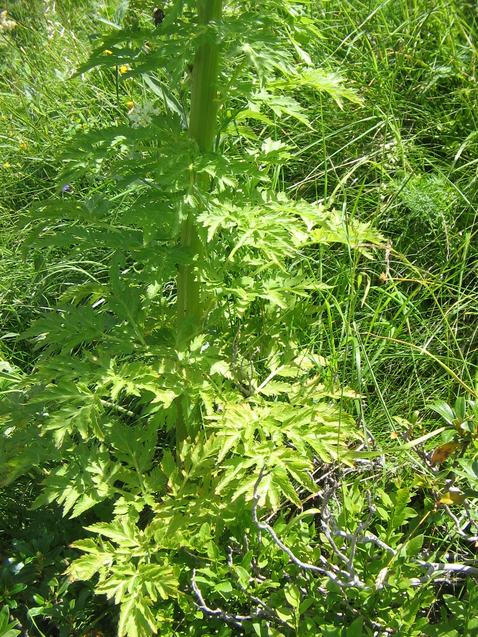 Pleurospermum austriacum - leaf